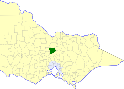 Location of the Shire of McIvor within Victoria.